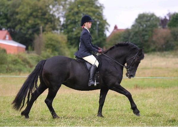 A Welsh Section D cob.